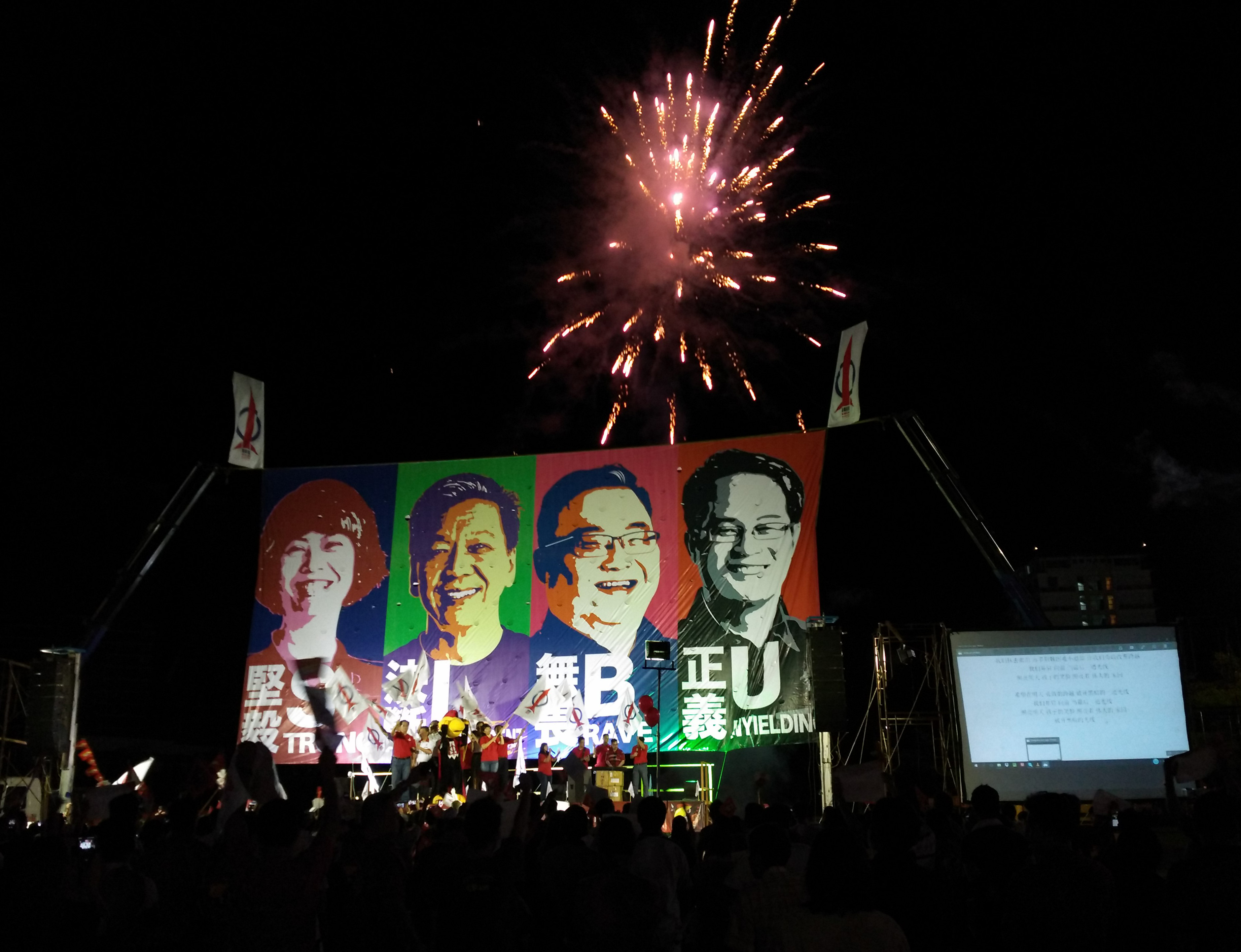 DAP campaign in Sibu on the night before the 2016 Sarawak state election.